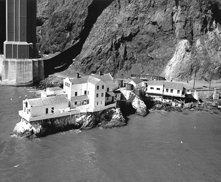 Public Domain statement here; Lime Point Lighthouse is a lighthouse in California, United States, on northern side of the Golden Gate Bridge.